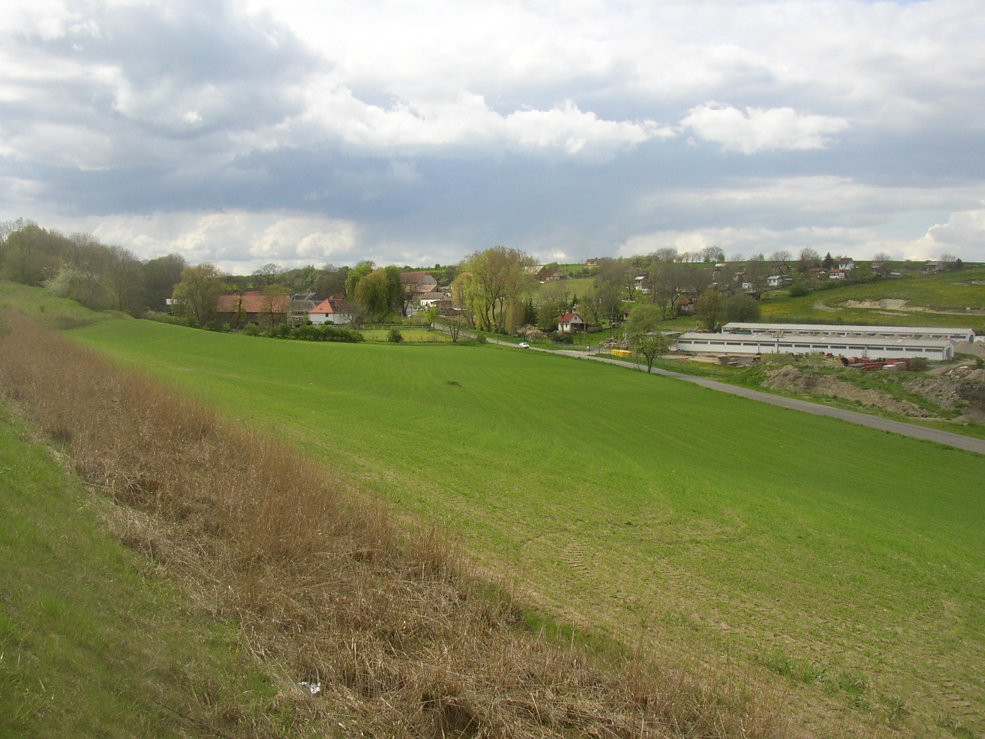 Netovice, part of Slaný town, Kladno District, Czech Republic. A general view of the village from the Southeast, from bridge of R7 expressway.